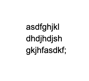 Example of a keysmash